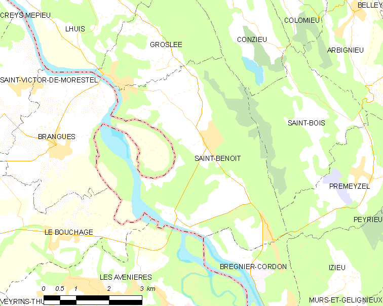 Map of French commune: Saint-Benoît Map commune FR insee code 01338.png